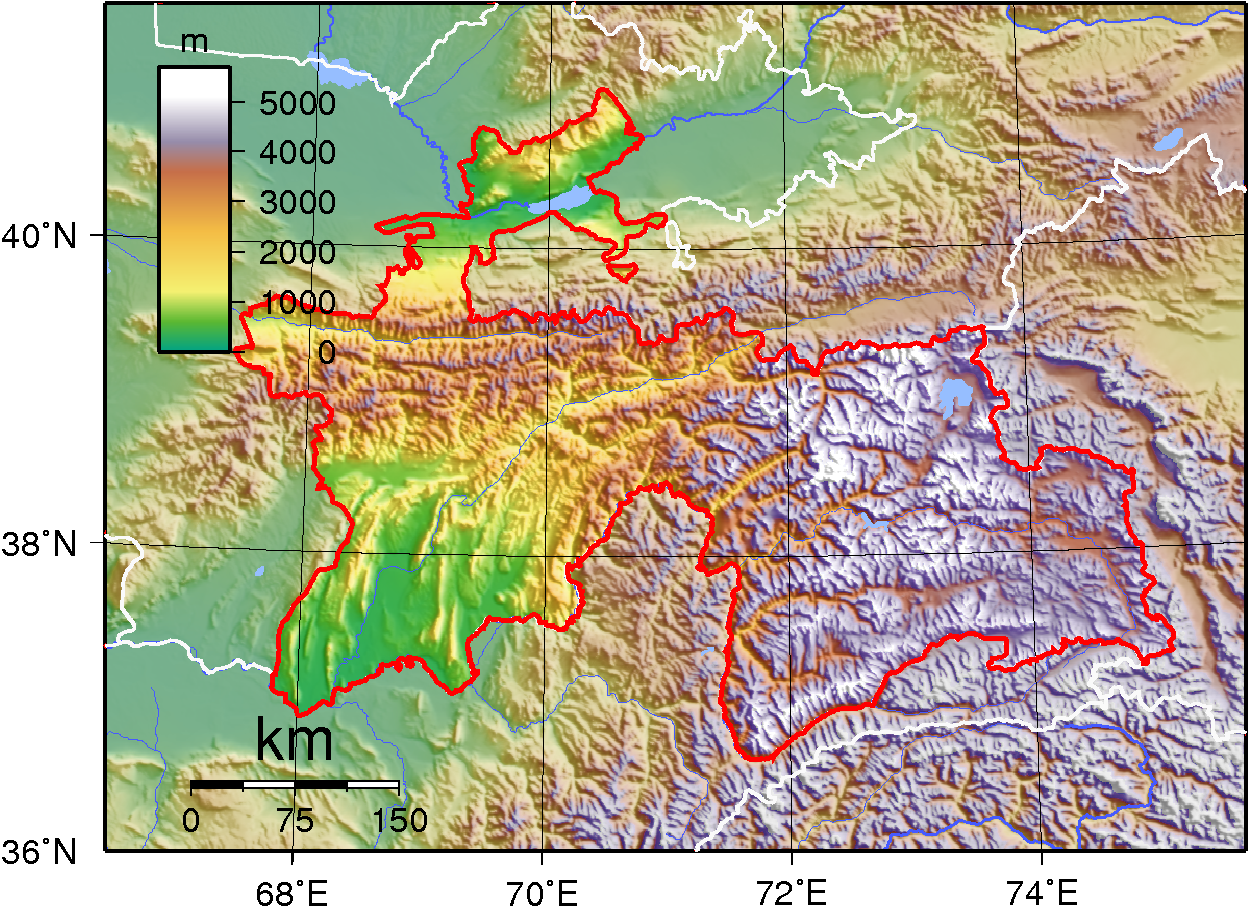 Topographic map of Tajikistan. Created with GMT from SRTM data